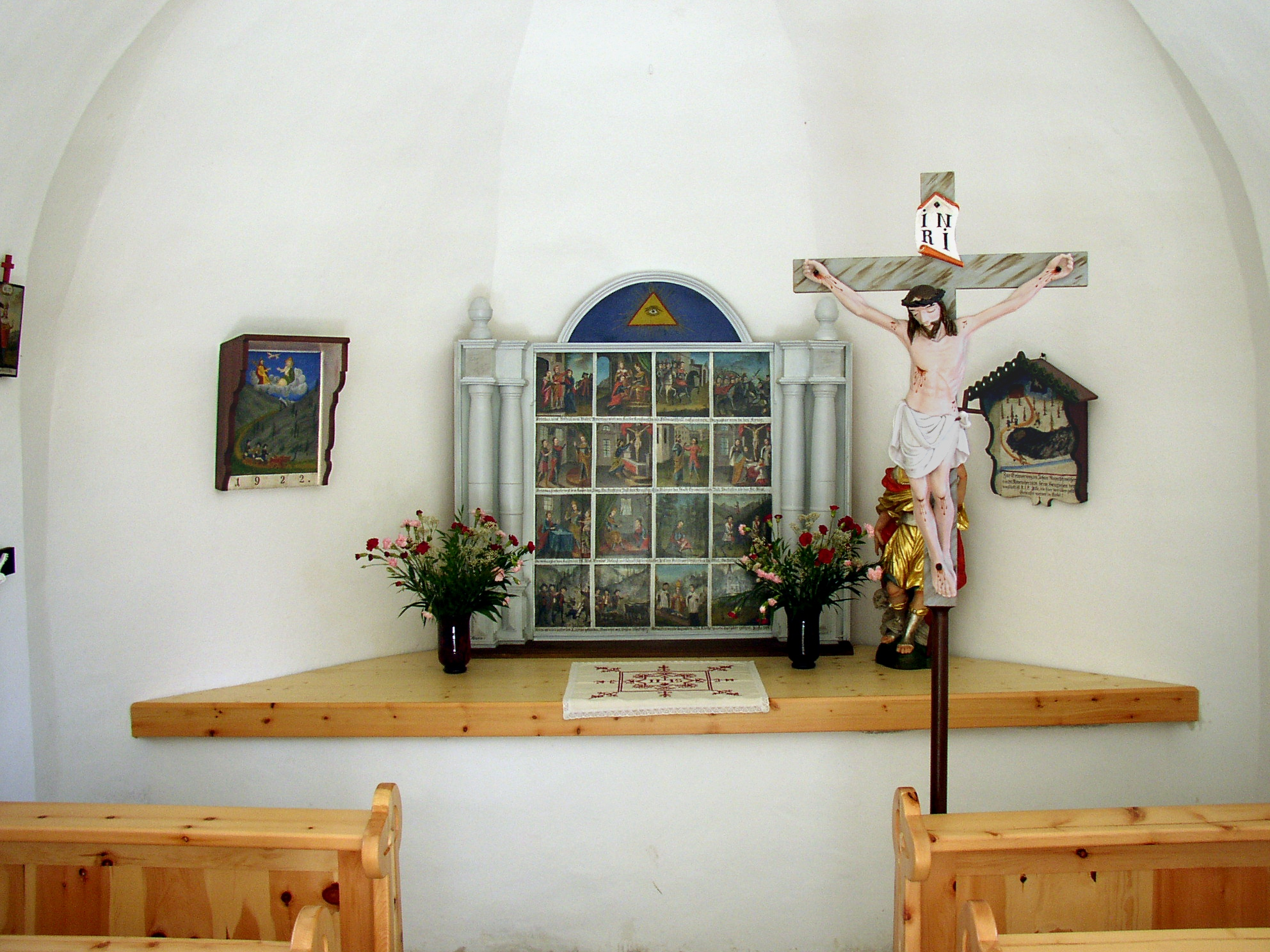 The Briccius Chapel at Heiligenblut, Carinthia, Austria, established in 1874. According to legend the Danish knight Briccius had a vial of the blood of Christ with him, when he was hit by an avalanche in 914 in what is now Heiligenblut.